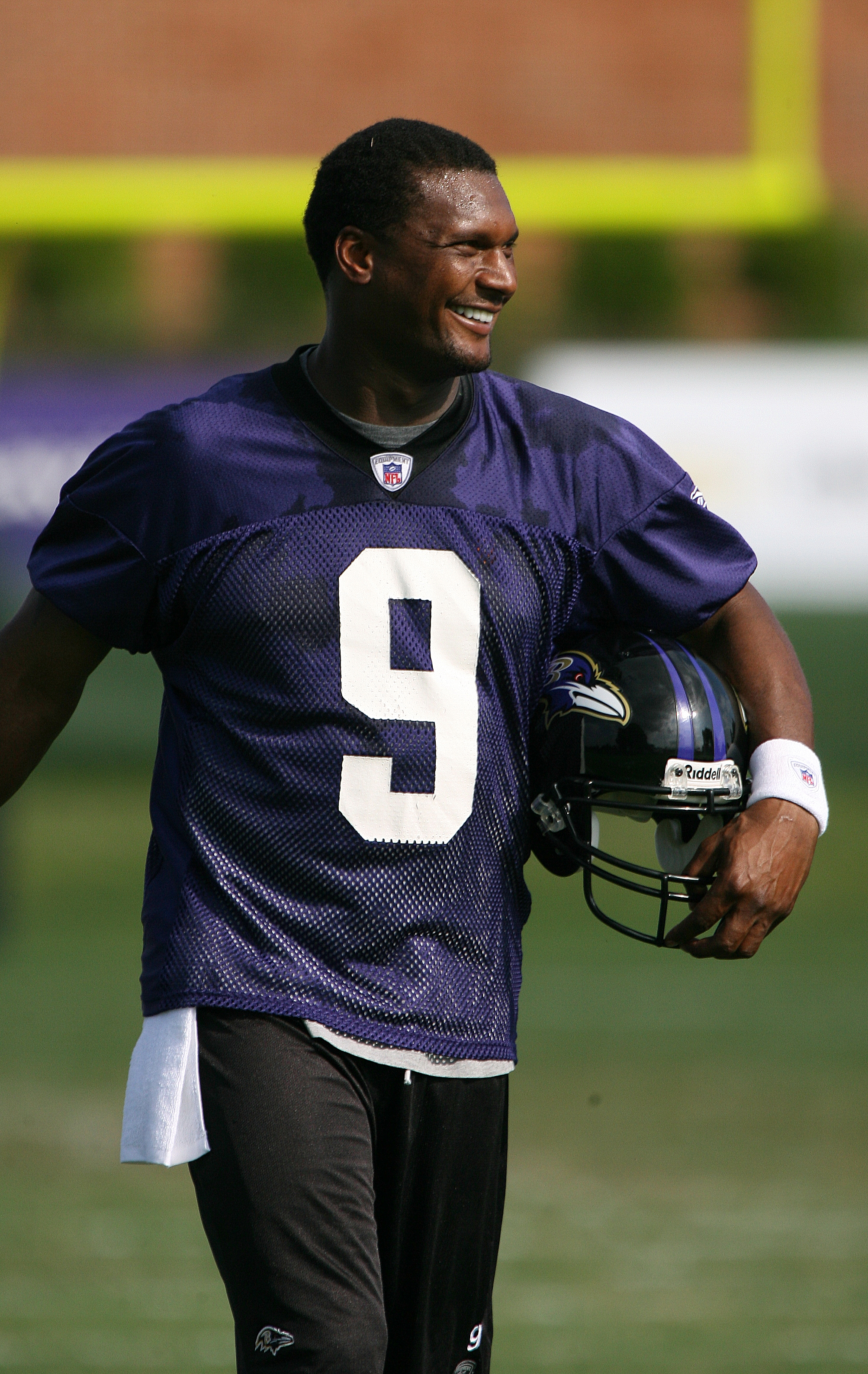 Steve McNair, retired American football quarterback for the Baltimore Ravens (at time of photo)